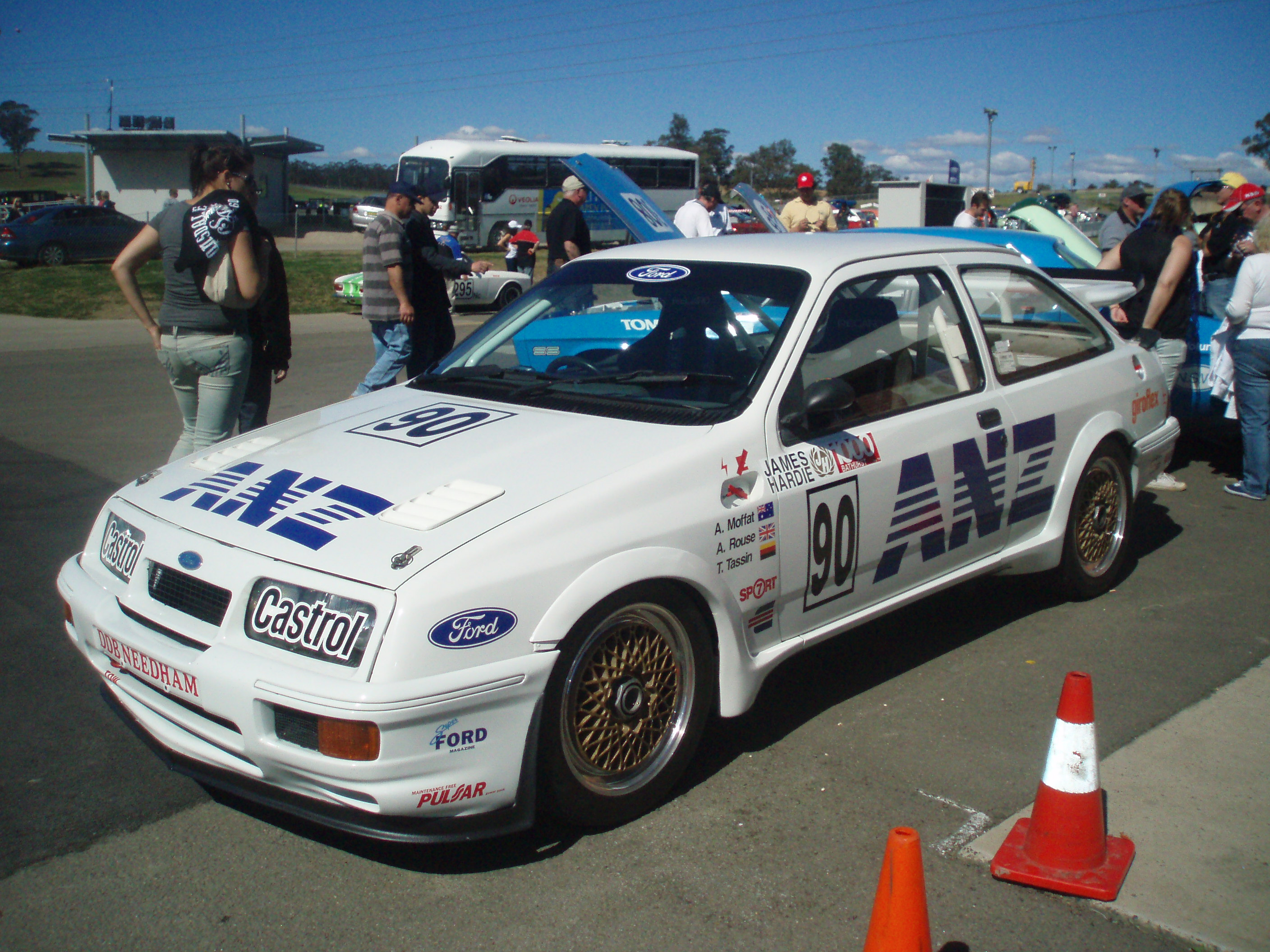 1987 Ford Sierra RS500 Cosworth Group A race car. Driven by Allan Moffat, Andy Rouse and Thierry Tassin at Bathurst in the 1987 James Hardie 1000. The car was entered by Rouse Enterprises, and the original race number was 9. Major sponsor was the ANZ Bank. 1987 was the first and only time the James Hardie 1000 was included in the World Touring Car Championship. It was also the last year of sponsorship by the James Hardie company. Taken at Shannon's Eastern Creek Classic 2010, held at Eastern Creek Raceway Sydney.